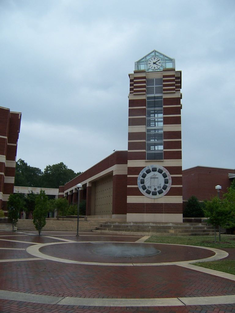 On the hour (some hours, anyway) circle of TVs play some colours, and the clock chimes (I think), and the round grate on the ground releases fog. Actually, the fogging is fairly frequent. The clock stuff I've rarely seen.